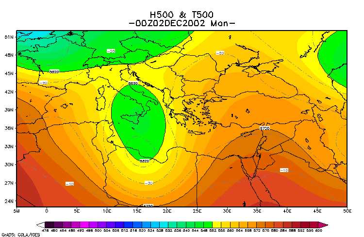 made by he:משתמש:Niv s